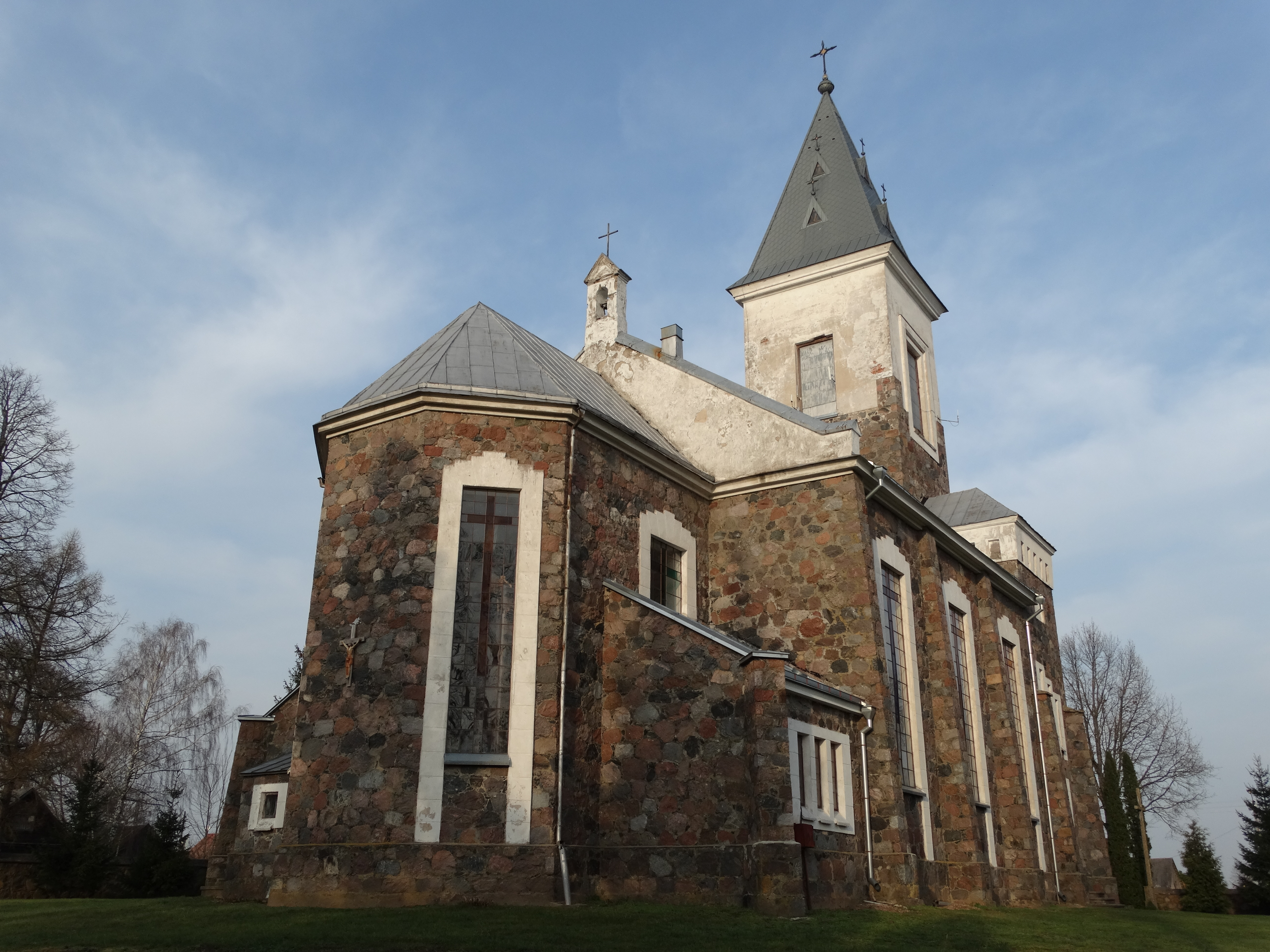 Roman Catholic Church in Papilys, Biržai district, Lithuania